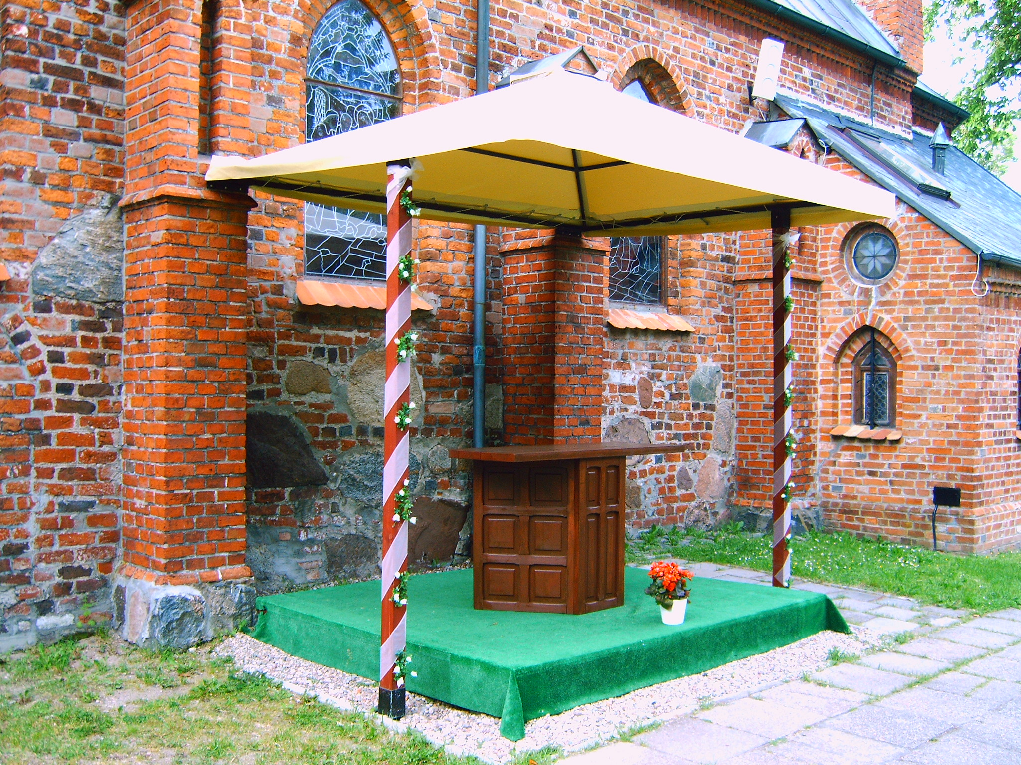 Poland, Mielno, Church of Transfiguration of Jesus, Altar near the church